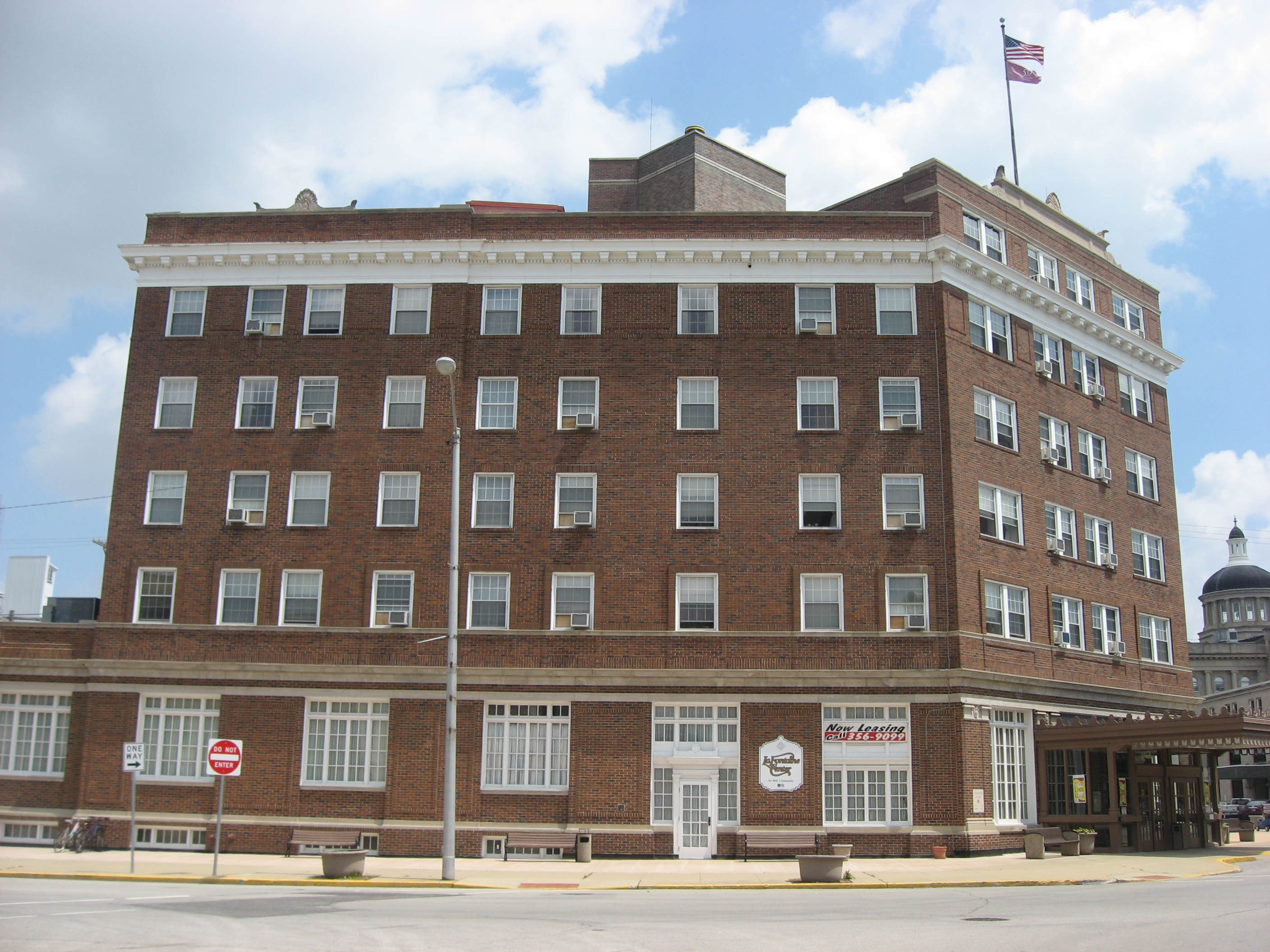 Front of the Hotel LaFontaine, located at 200 W. State Street (U.S. Route 224/State Road 5) in downtown Huntington, Indiana, United States. Built in 1925, it is listed on the National Register of Historic Places, and it is part of a Register-listed historic district, the Huntington Courthouse Square Historic District.